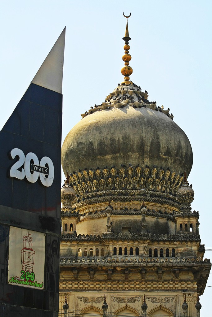 Billboard put up on the occassion of 200 years of Secunderabad